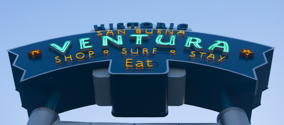 A little neon to welcome you